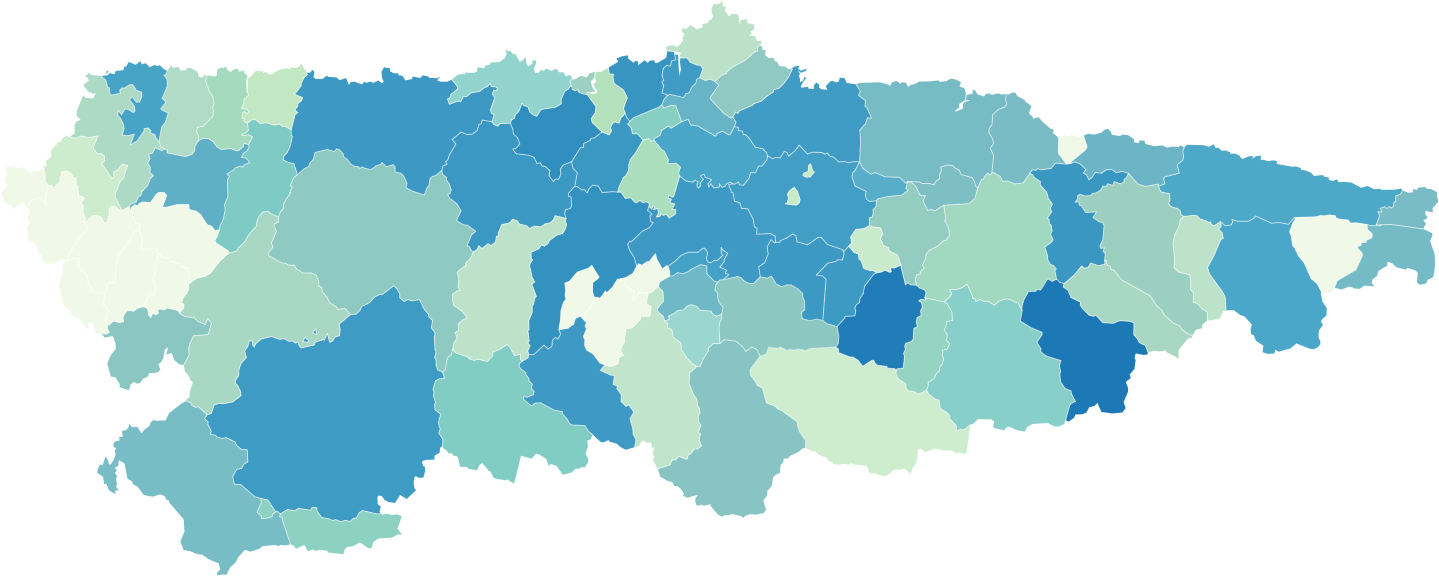 Confirmed COVID-19 cases per capita in Asturias by municipality as of 5 June: 0 cases per 100,000 people 200 cases per 100,000 people 400 cases per 100,000 people 600 cases per 100,000 people 800 cases per 100,000 people 936.8 cases per 100,000 people (Pravia) Based in and